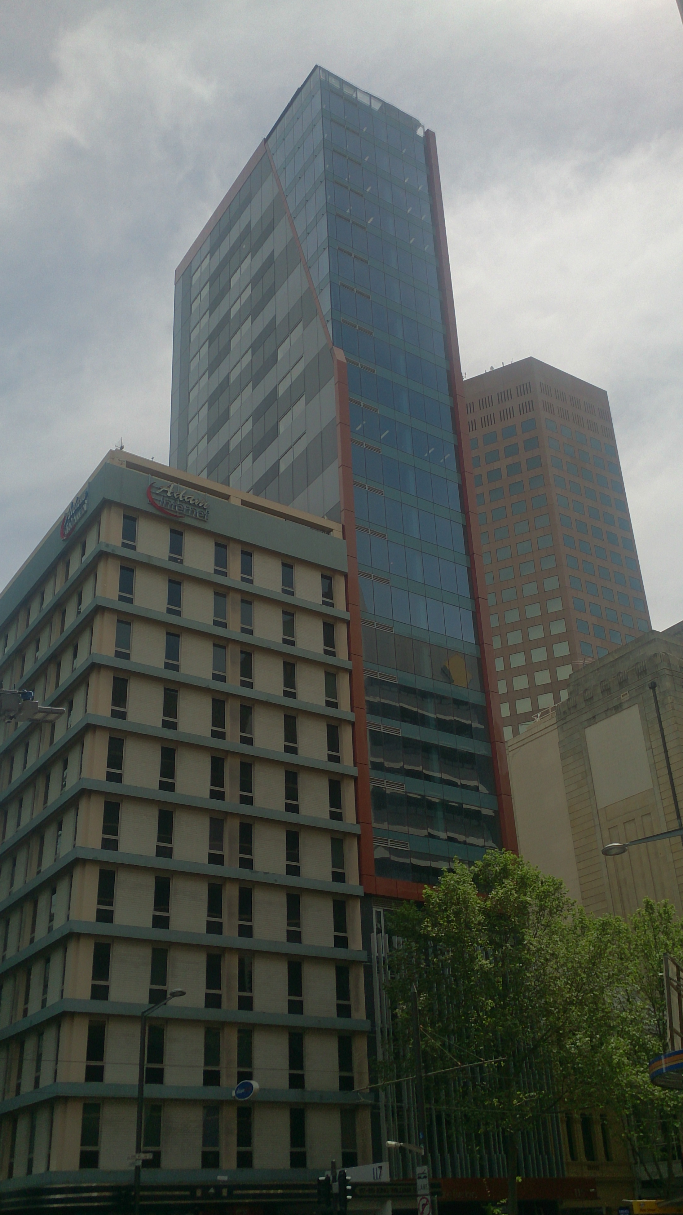 This is a photo of 115 King William Street that I took.